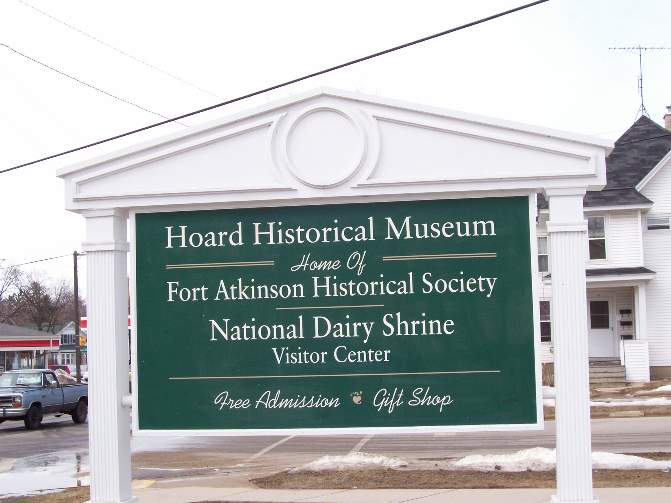 The sign for the Hoard Historic Museum and National Dairy Shrine at Fort Atkinson, Wisconsin.